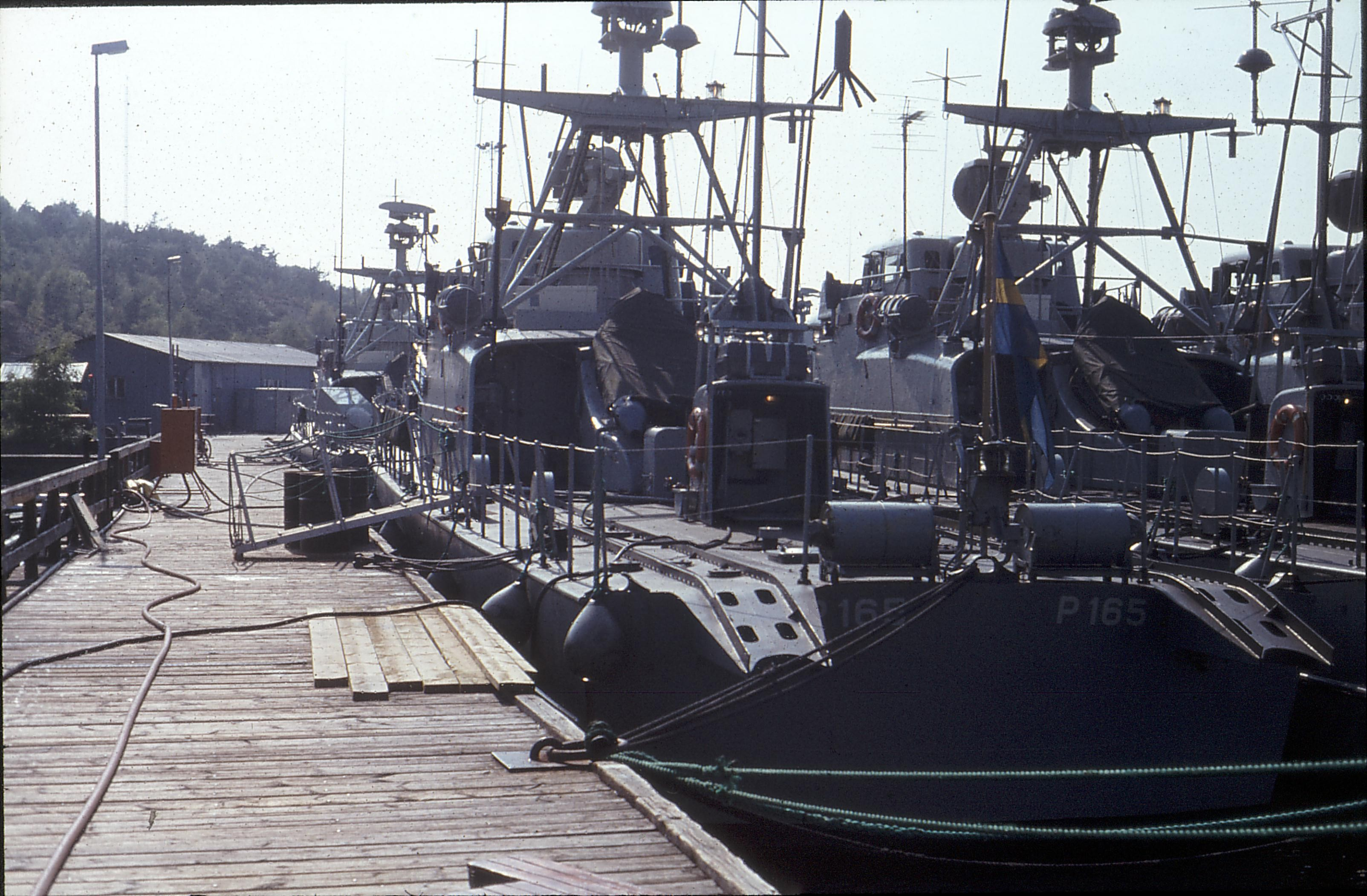 Rear view of Swedish Patrolboat Tordoen (P165), testing before delivery to the navy. Photo taken in former Gothenburg naval base "Nya Varvet" in the summer of 1982.